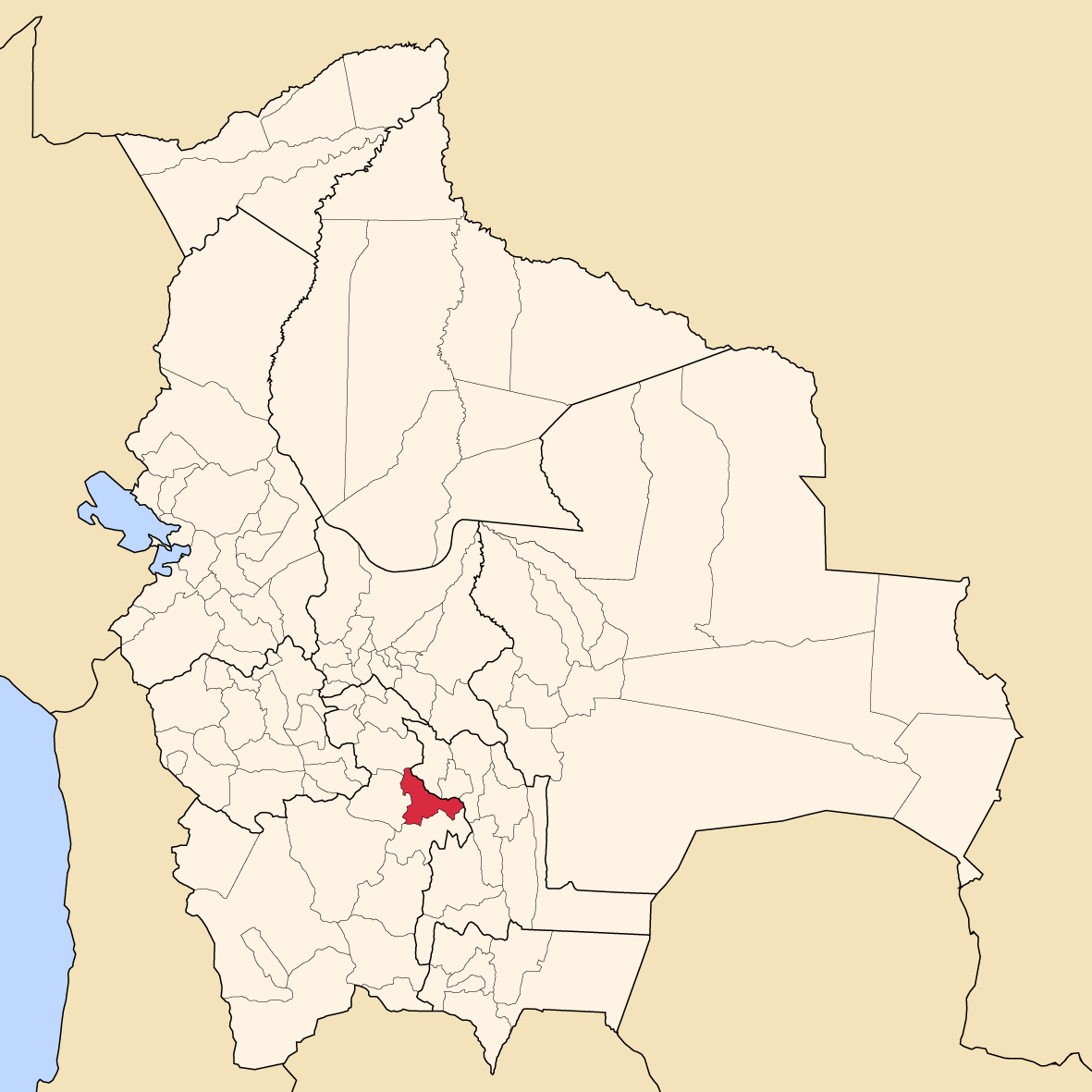 Map of Bolivia showing Cornelio Saavedra province, Potosí